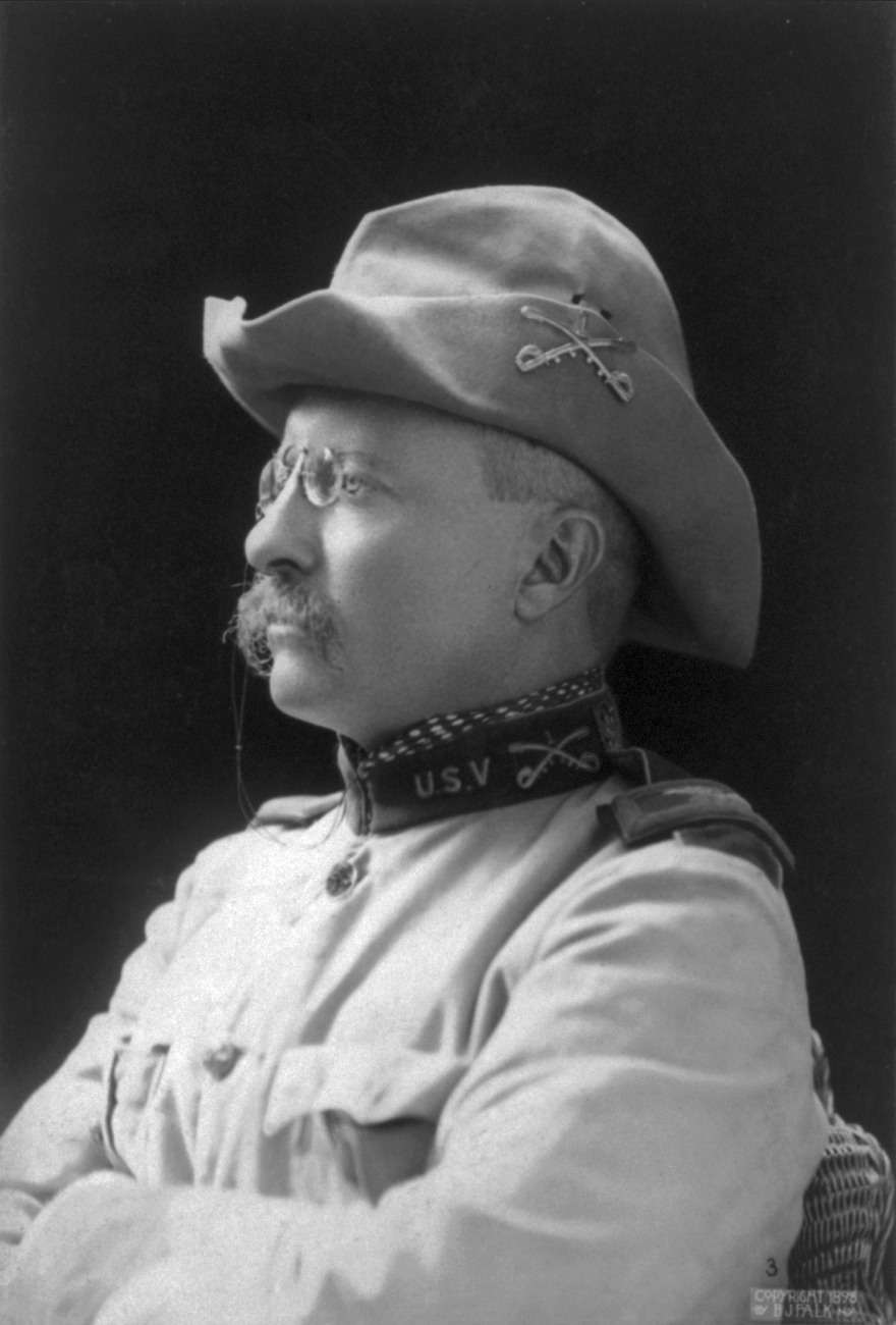 Col. Theodore Roosevelt. Crop of Image:Theodore Roosevelt, 1898.png with minor Photoshop cleanup